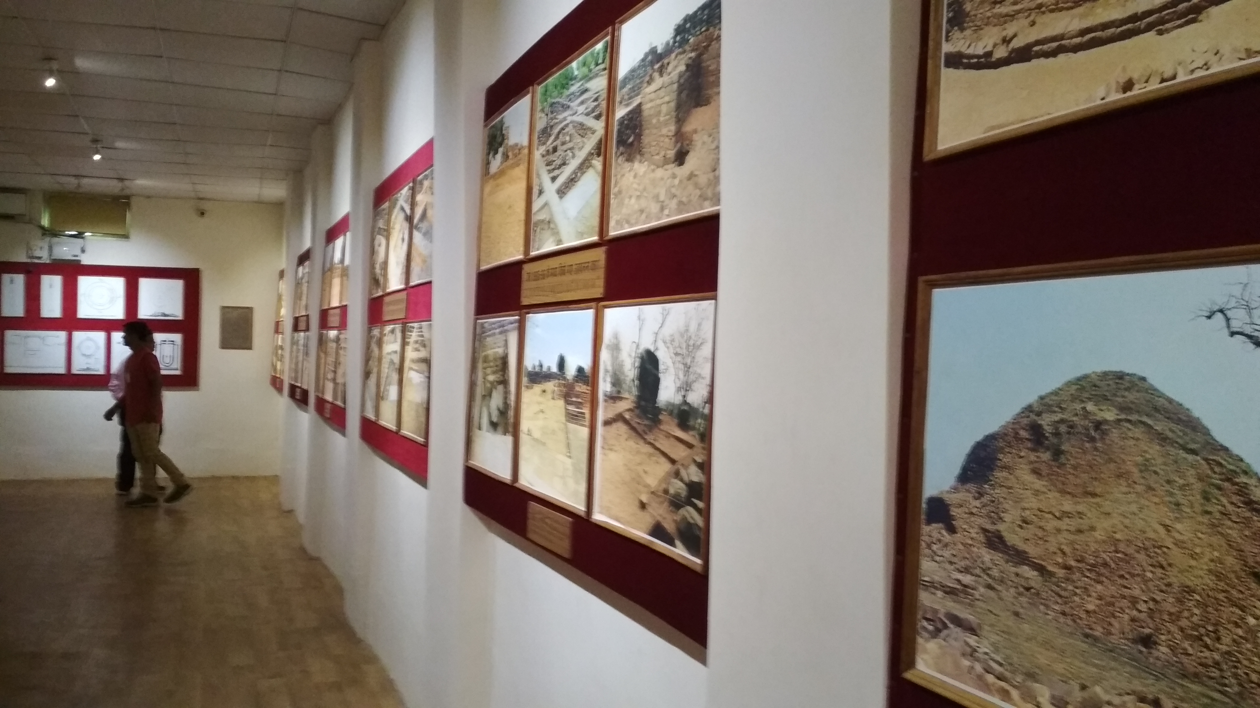 Sanchi Archaeological Museum Gallery